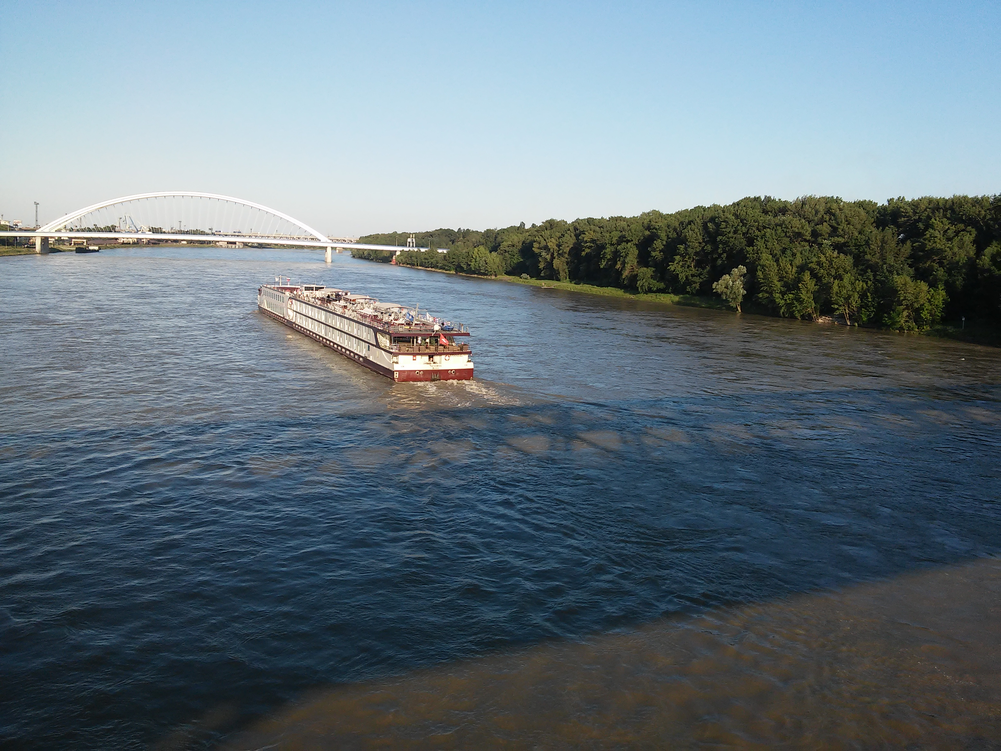 Former Lido, Bratislava